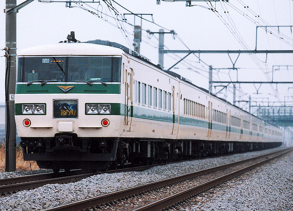 JNR 185 series EMUs on a "Tanigawa"+"Akagi" limited express service